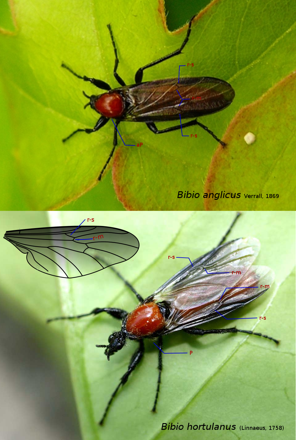 Morphological differences between females Bibio hortulanus and Bibio anglicus ; Legend: Wing nervation r-m and rs equal in Bibio anglicus, wing nervation r-m smaller than r-s in Bibio hortulanus. aP: lake of white hairs on the thorax of Bibio anglicus. P , White hairs in older specimen of Bibio hortulanus.